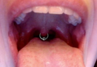 Photoshopped image of a uvula piercing. An authentic photo can be found here: File:My Uvula Piercing - NOT done in Poland (2593375144).jpg.